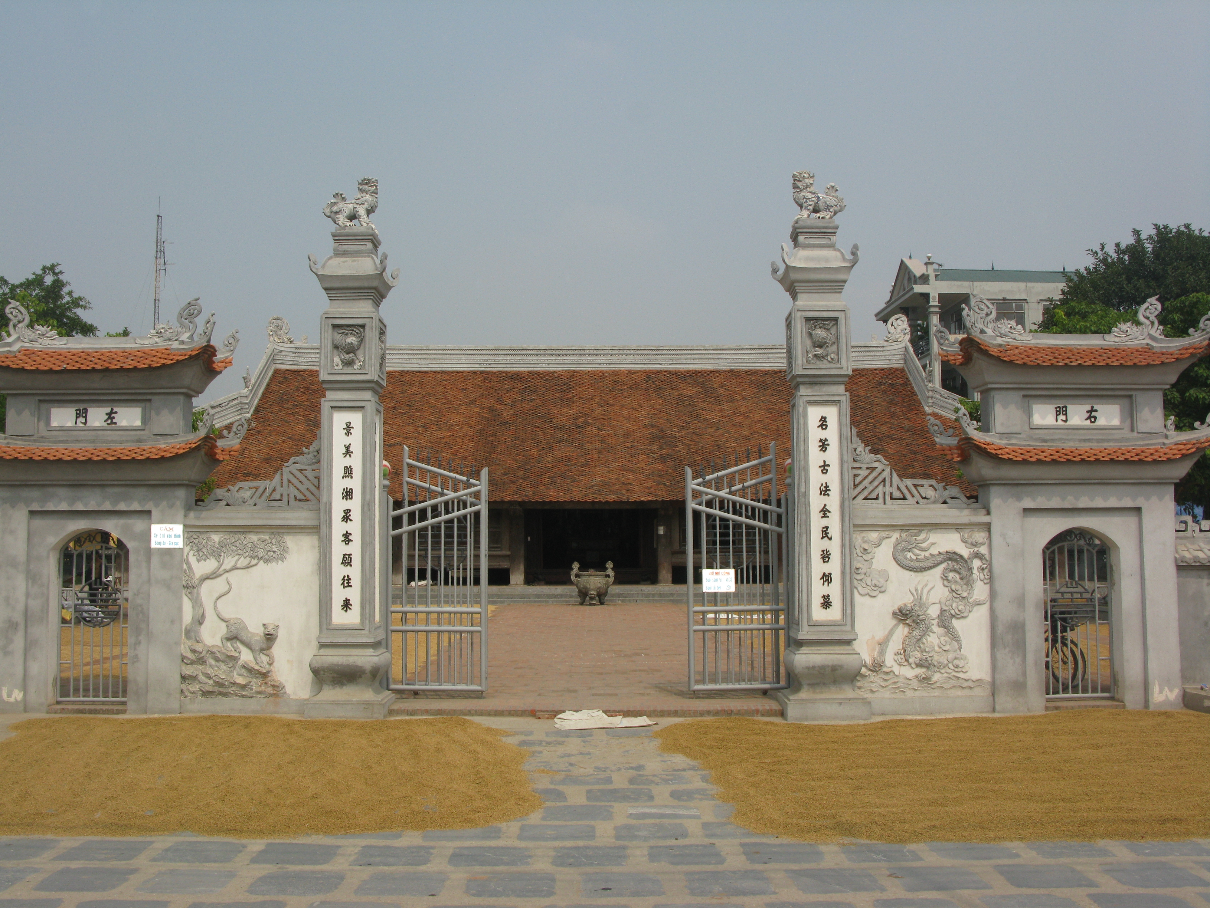 The gate of Dinh Bang communal house.